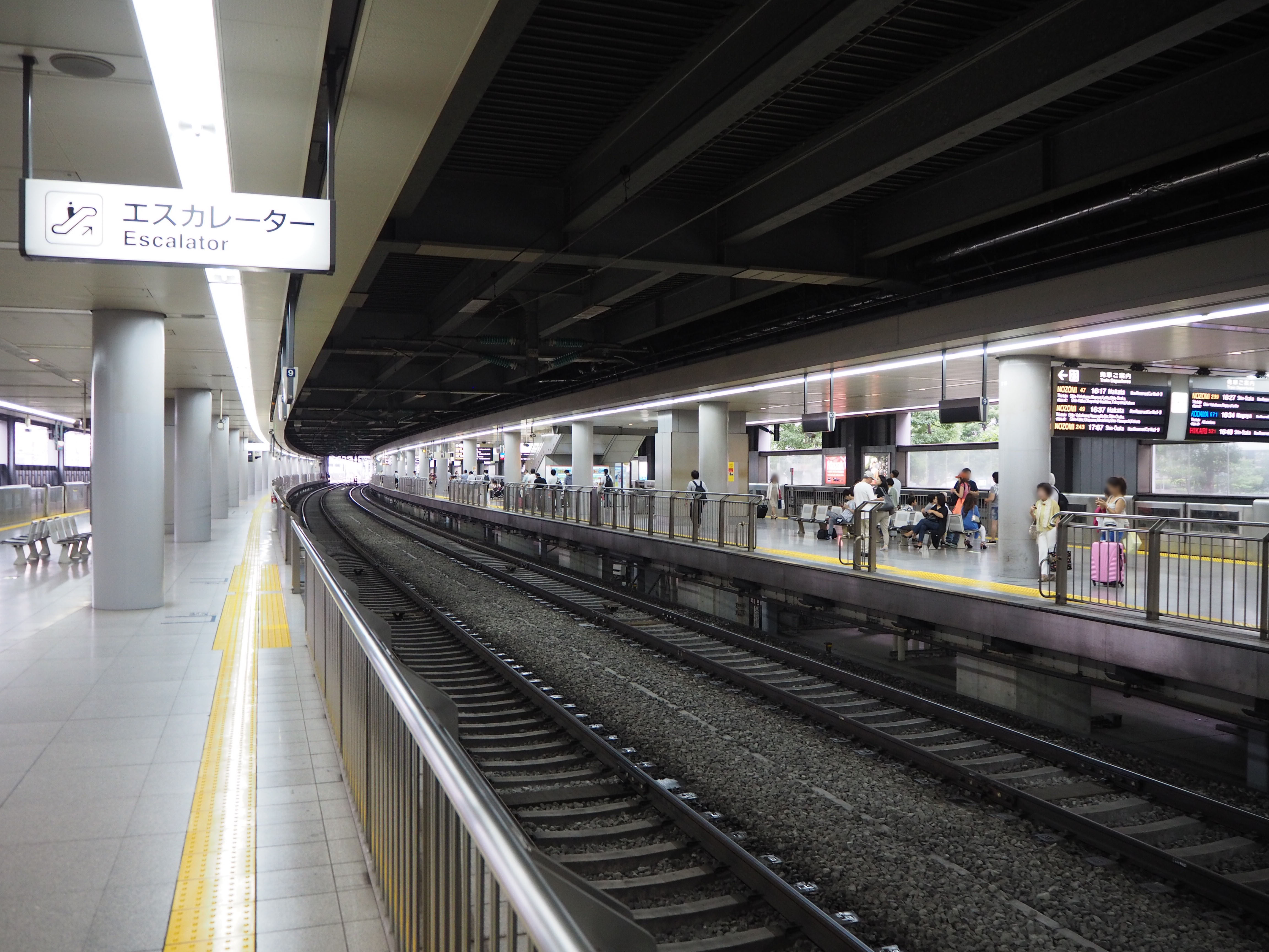 Platforms of Shinagawa Station(Shinkansen)